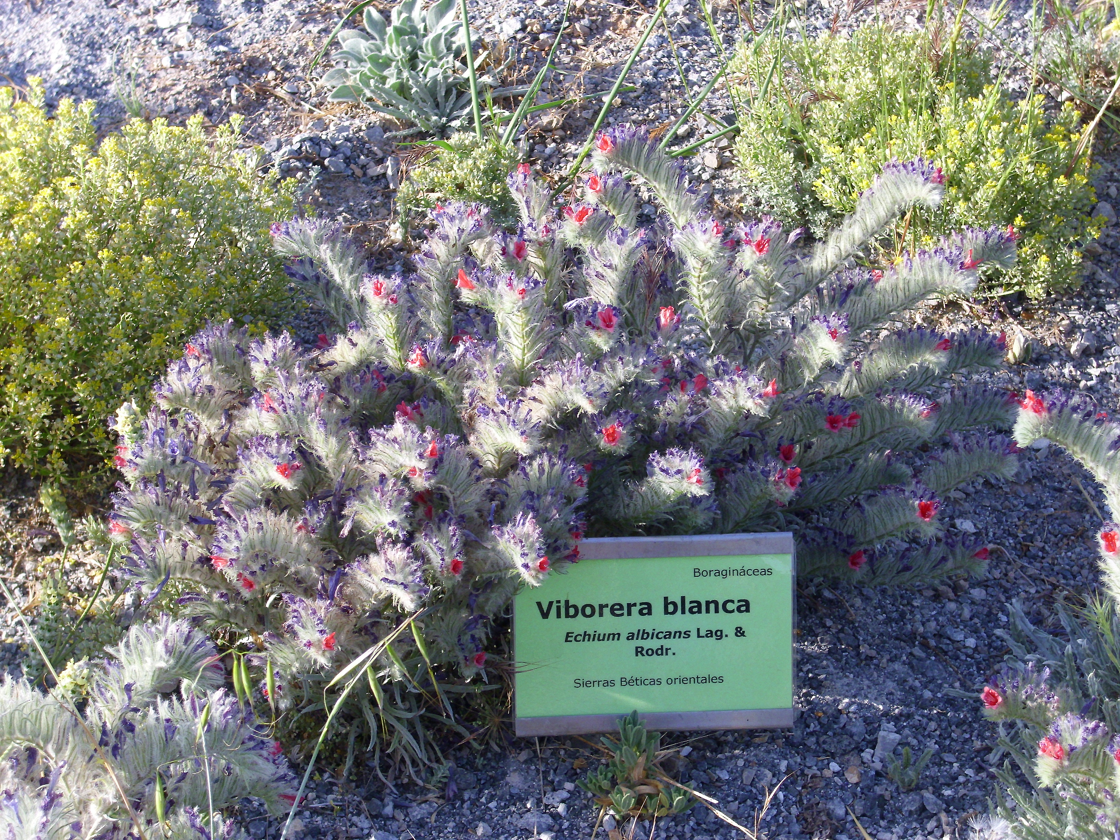 Echium albicans habit, Sierra Nevada, Spain